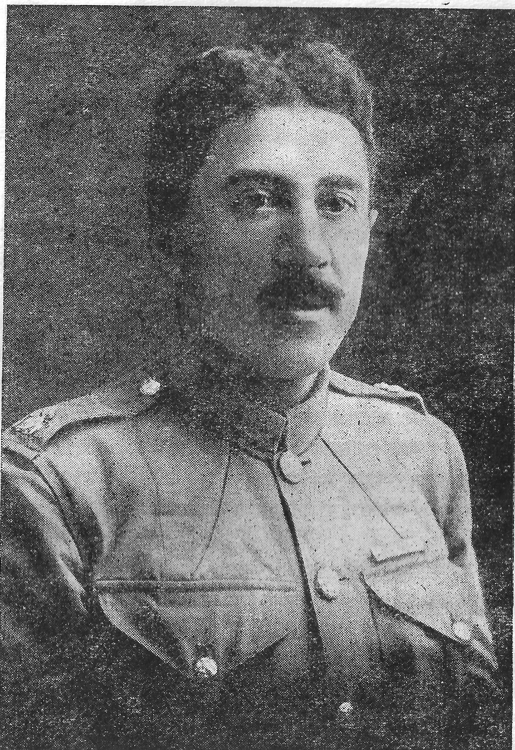 Shimon David Yaffe (1923–1957), Israeli agricultural writer and editor and Haganah commander.